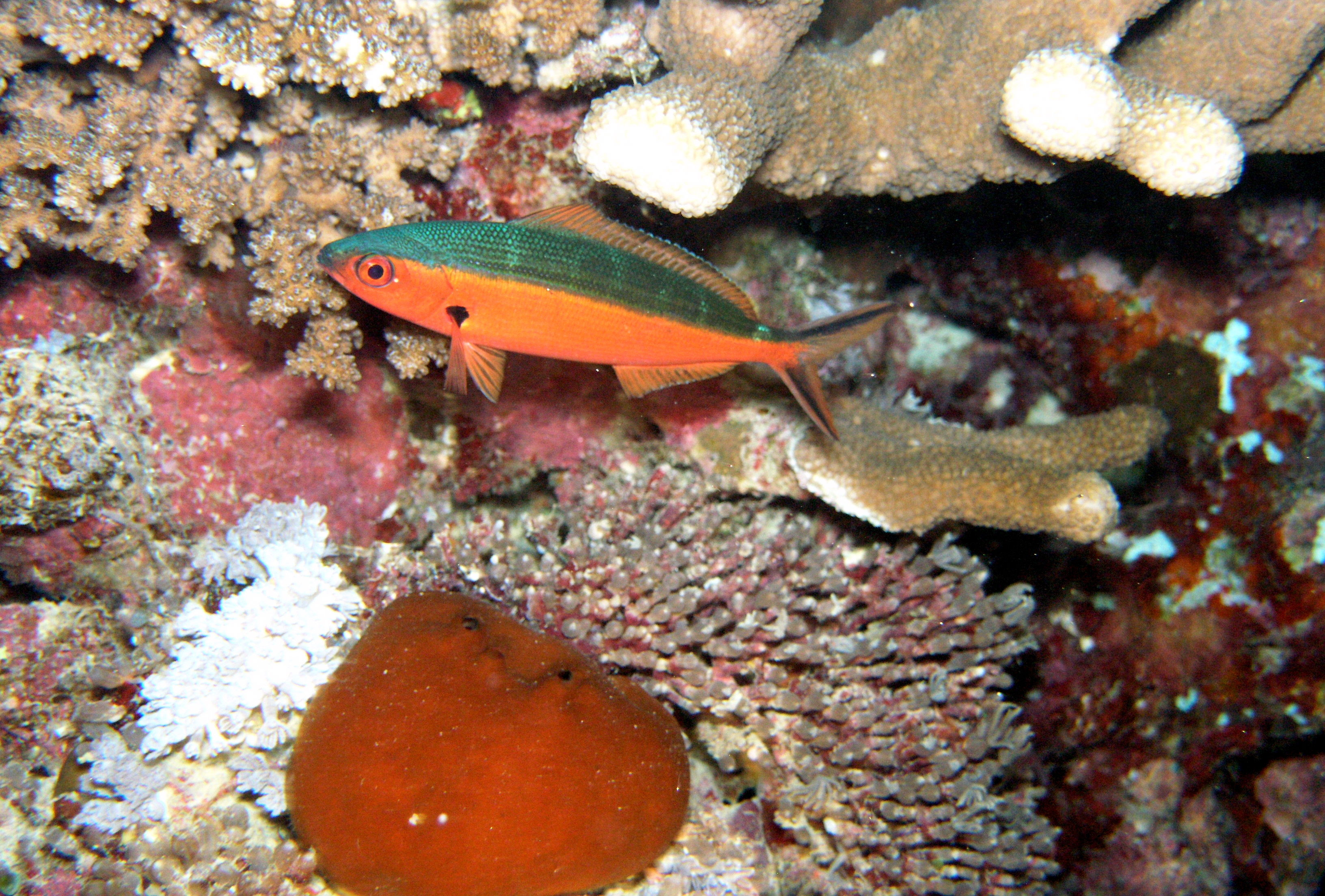 scuba diving near Swallow Reef (Pulau Layang-Layang) in Spratly Islands, South China Sea